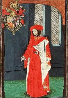 Statuts, Ordonnances et Armorial de l'Ordre de la Toison d'Or (Statutes, Ordonnances and armorial of the Order of the Golden Fleece) Place of origin, date: Southern Netherlands; 1473. Added sections: Southern Netherlands; 1478 or shortly after and 1491 or shortly after Material: Vellum, ff. 86, 249x187 (167x106) mm, 23 lines, littera cursiva (lettre bourguignonne). French. Binding: 18th-century brown leather Decoration: 1 full-page miniature (170x115 mm) with border decoration; 92 miniatures (185/155x120/100 mm); 1 historiated initial (80x90 mm) with border decoration; decorated initials with border decoration (ff., Added section: miniatures ; 4 drawings for miniatures (not finished) Provenance: Presented in 1473 by Gilles Gobet, King of Arms of the Order of the Golden Fleece, to Charles the Bold, Duke of Burgundy and the other Knights during the Chapter of the Order held at Valenciennes; Treasure of the Golden Fleece, Brussls; taken away by the Treasurer C.-F. Humyn (d. 1735) or his daughter C.Ch. de Corte; by legacy to her daughter M.-L. de Corte, wife of Ph.-E. de Poederlé; purchased in 1781 at the Poederlé sale by G.-J- Gérard of Brussels; acquired in 1832 as part of the Gérard collection (no. A 27)